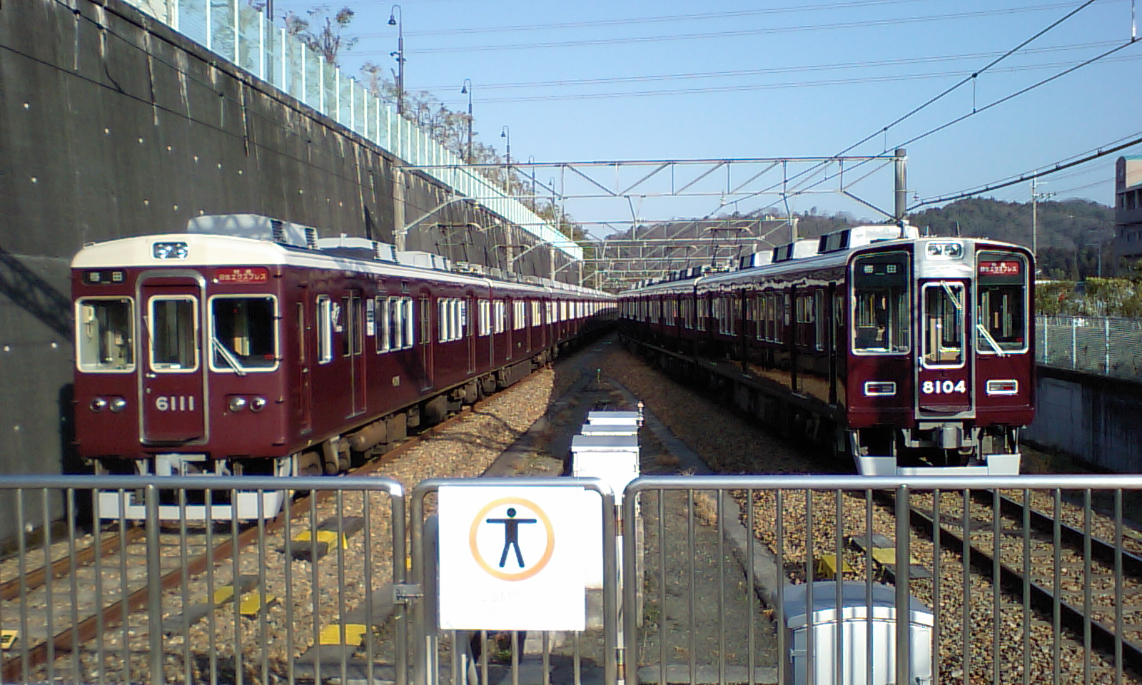 Vehicles stationed on the tracks at Nissei-Chuo Station